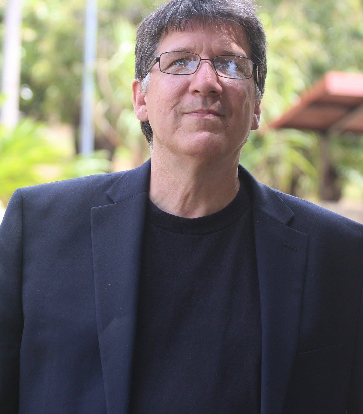 Daniel St. Pierre at Eductour 2016 (6-13 nov) on Reunion Island